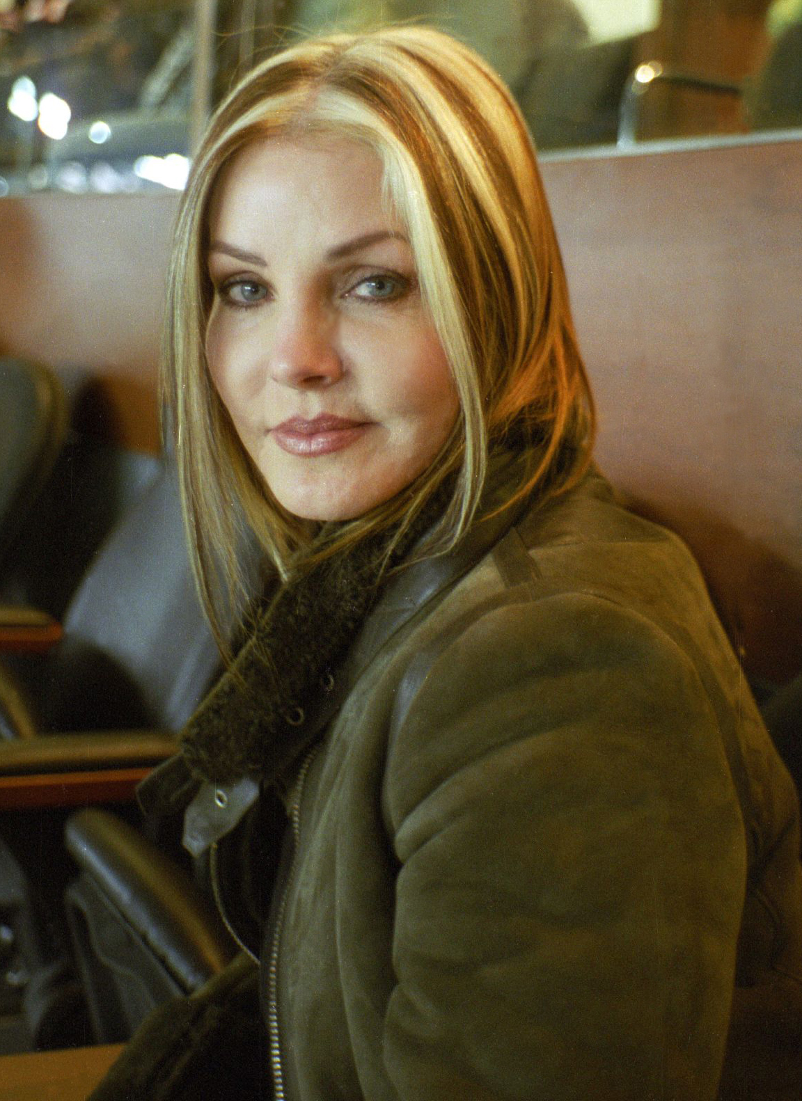 Photo of Priscilla Presley at Chicago's Soldier Field.